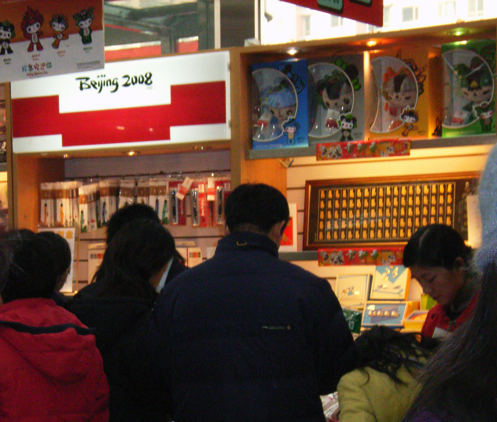 In Ito yodako Beijing (Yayuncun) Shopping Center, Many people bought Friendlies(Beijing 2008 Olympic Mascot) toy.